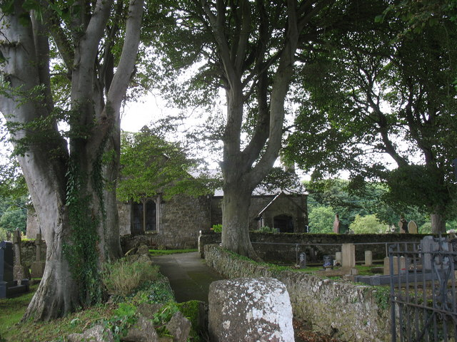 The driveway leading to St Gallgo Church, Llanallgo, near to Llanallgo, Isle of Anglesey/Sir Ynys Mon, Great Britain.